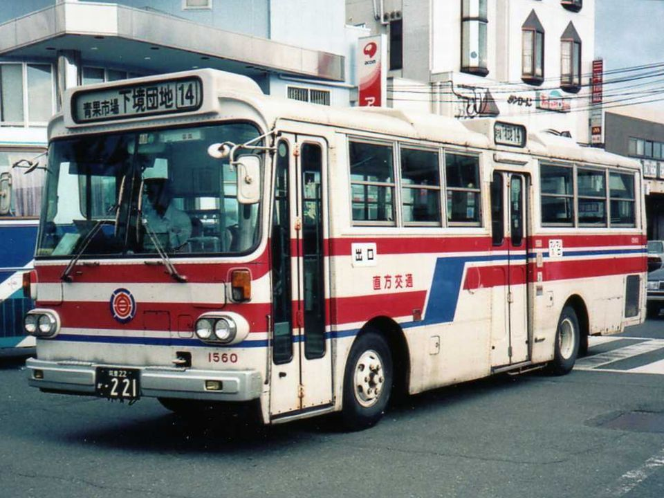 Isuzu K-CCM410 for Nogata Kotsu (now Nishitetsu Bus Chikuho) #1560 at Nogata Station